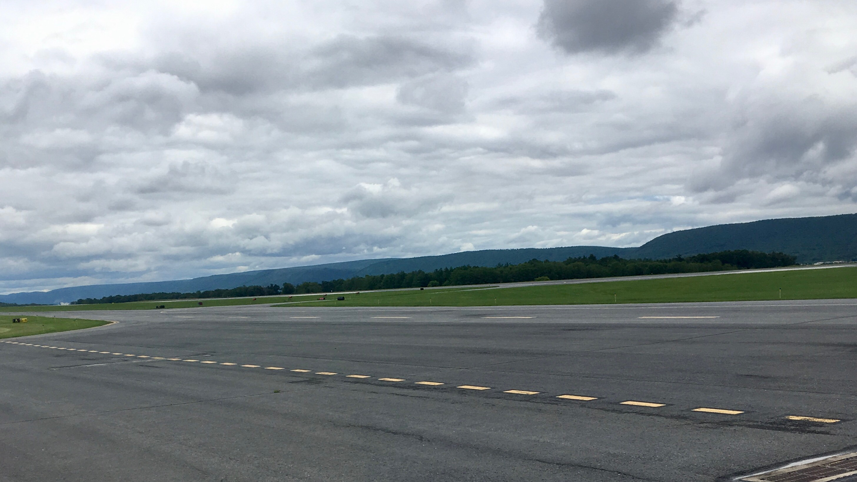 Williamsport Regional Airport Apron